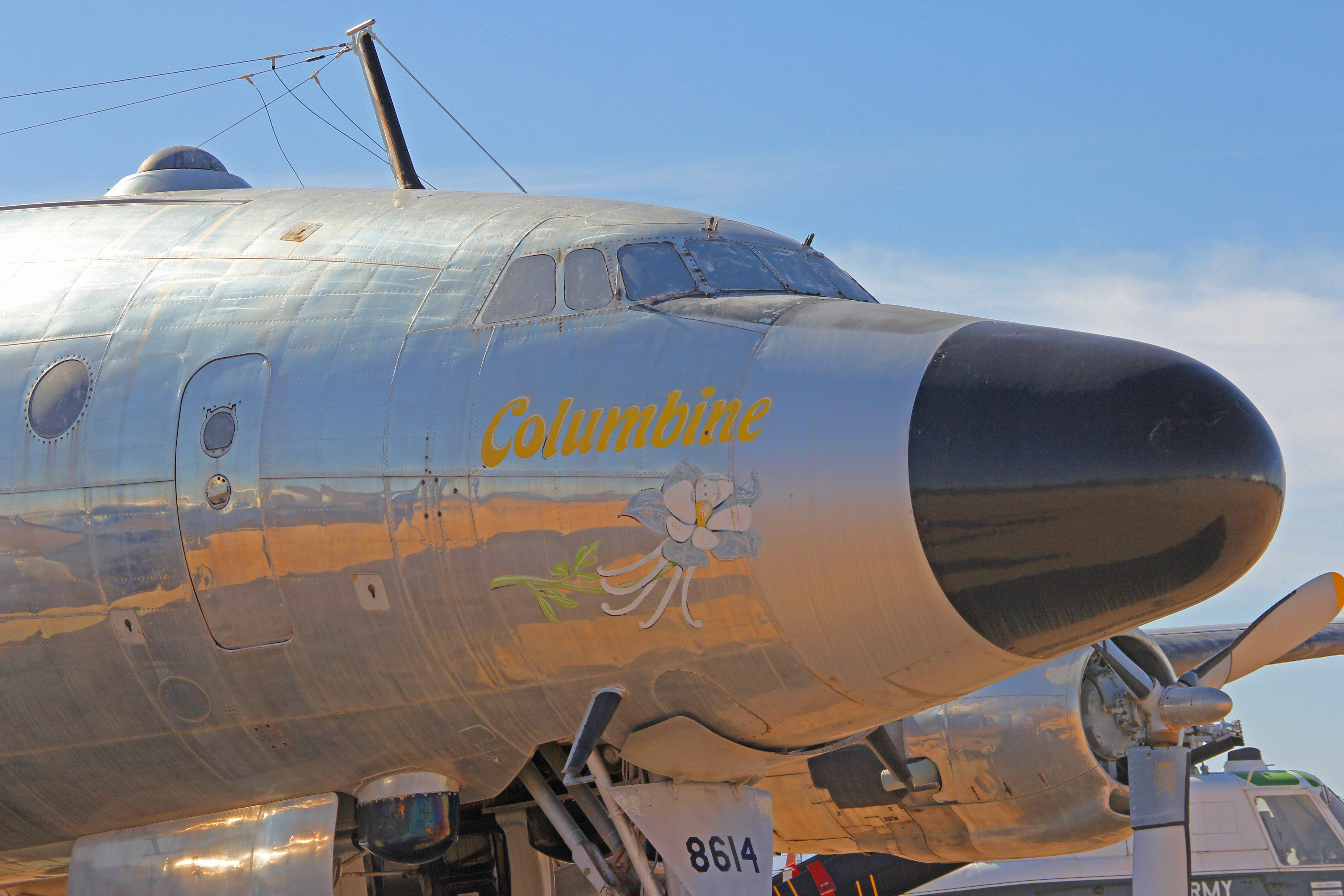 Serial Number: 48-0614 Markings: 7167th Special Air Missions Squadron, Wiesbaden Air Base, Germany, 1951